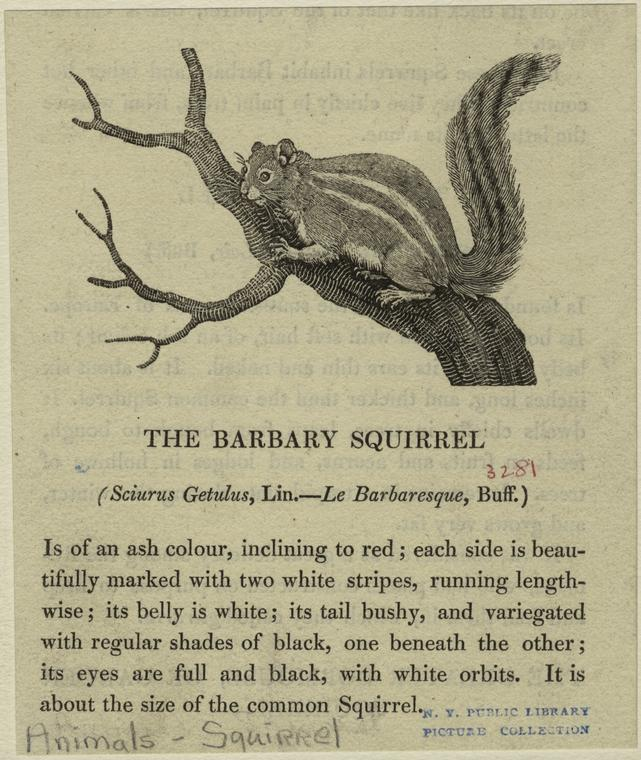 Printed on border: "Sciurus getulus, Lin. - Le barbaresque, Buff." "Is of an ash colour, inclining to red ; each side is beautifully marked with two white stripes, running length-wise ; its belly is white ; its tail bushy, and variegated with regular shades of black, one beneath the other ; its eyes are full and black, with white orbits. It is about the size of the common squirrel"